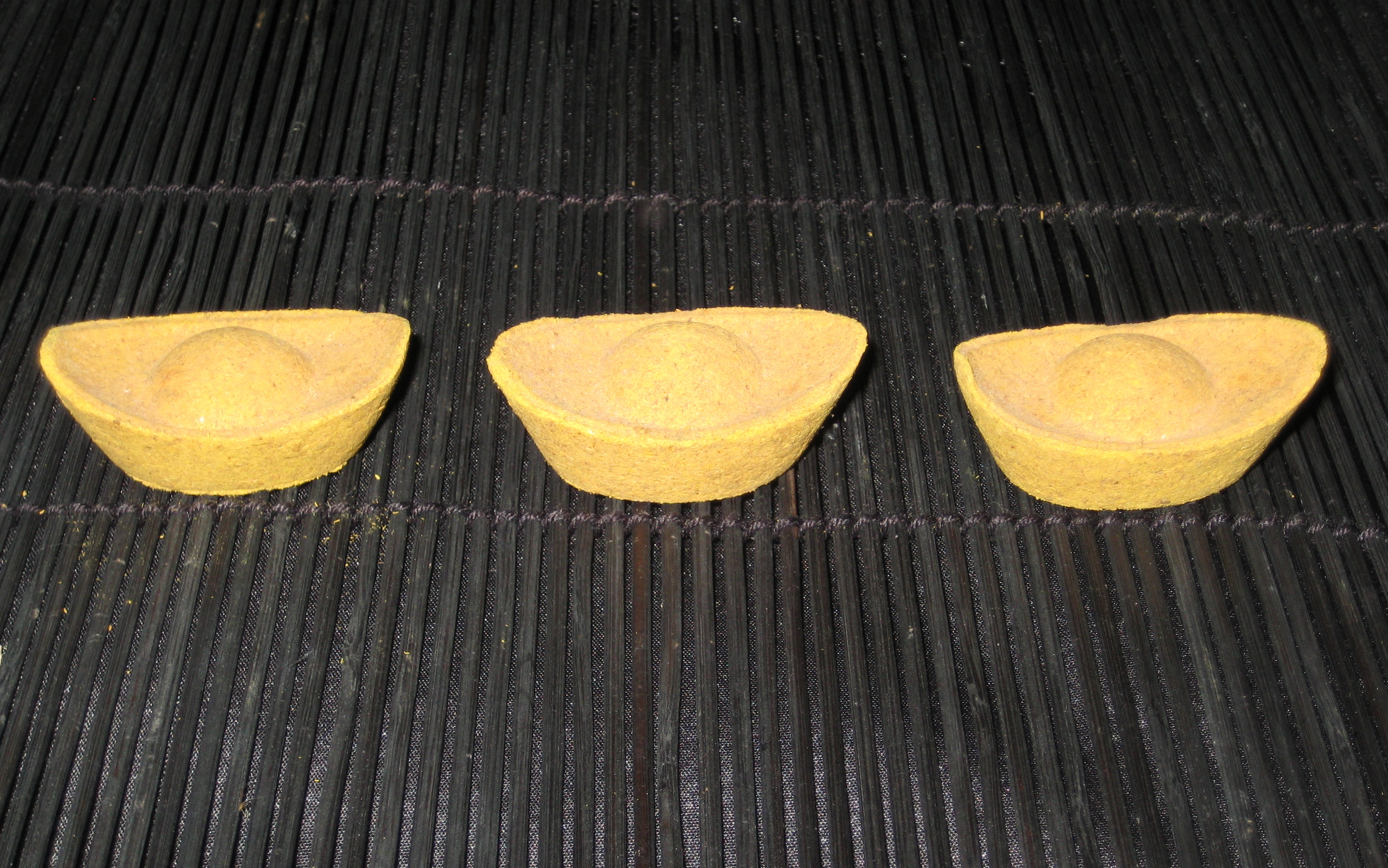 Sycee-shaped incense used in feng shui . February 2009 photo by John Stephen Dwyer